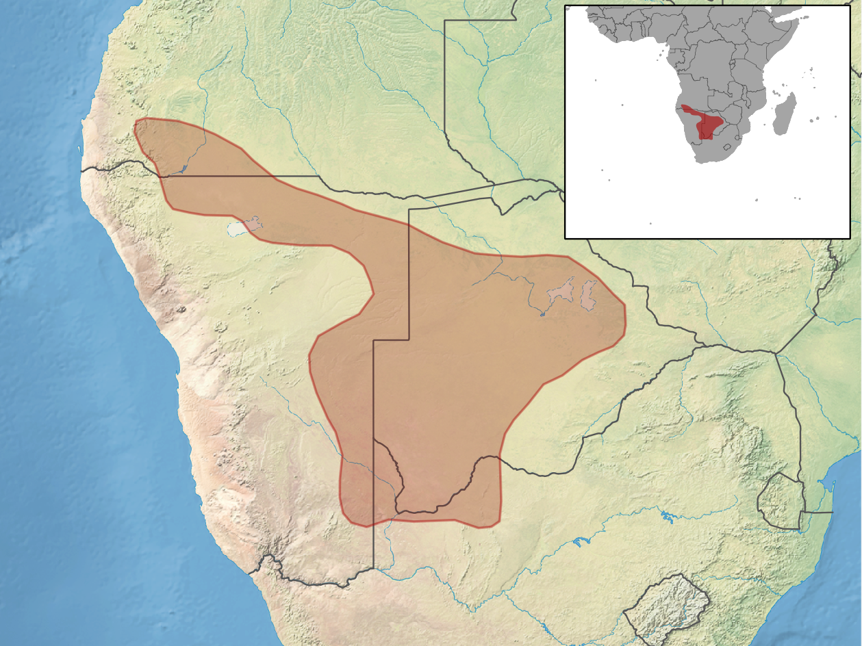 geographic distribution of Zelotomys woosnami